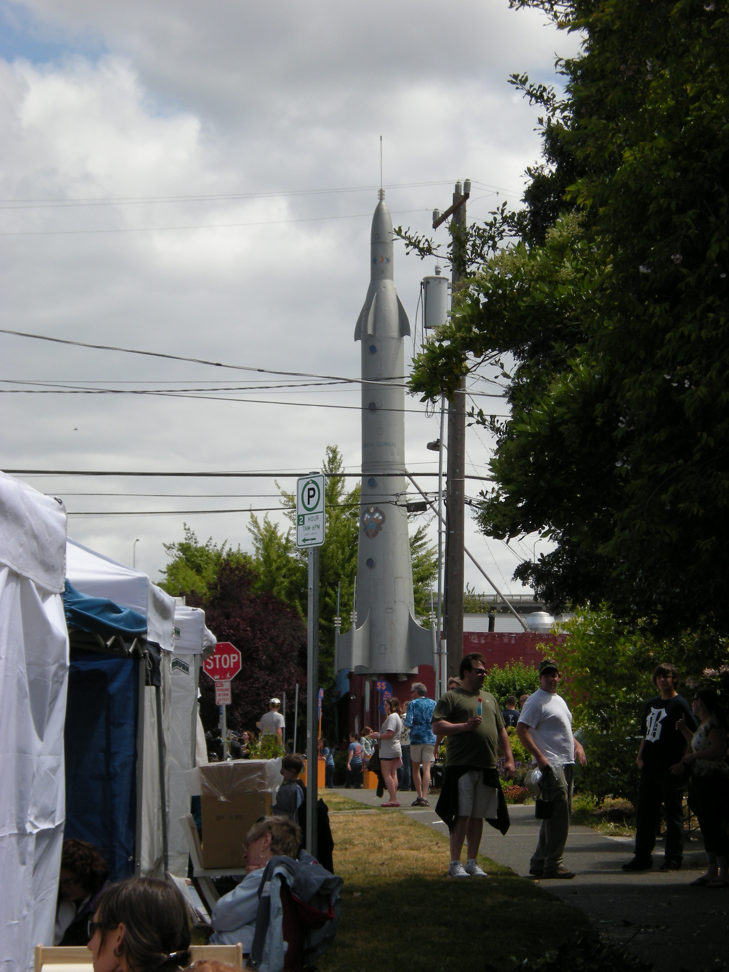 Fremont Rocket, Fremont, Seattle, Washington. It is not a real rocket, but a Fairchild C-119 tail boom modified to resemble a missile. It was rescued from a defunct downtown Seattle surplus store, and is now a symbol of the Fremont neighborhood.